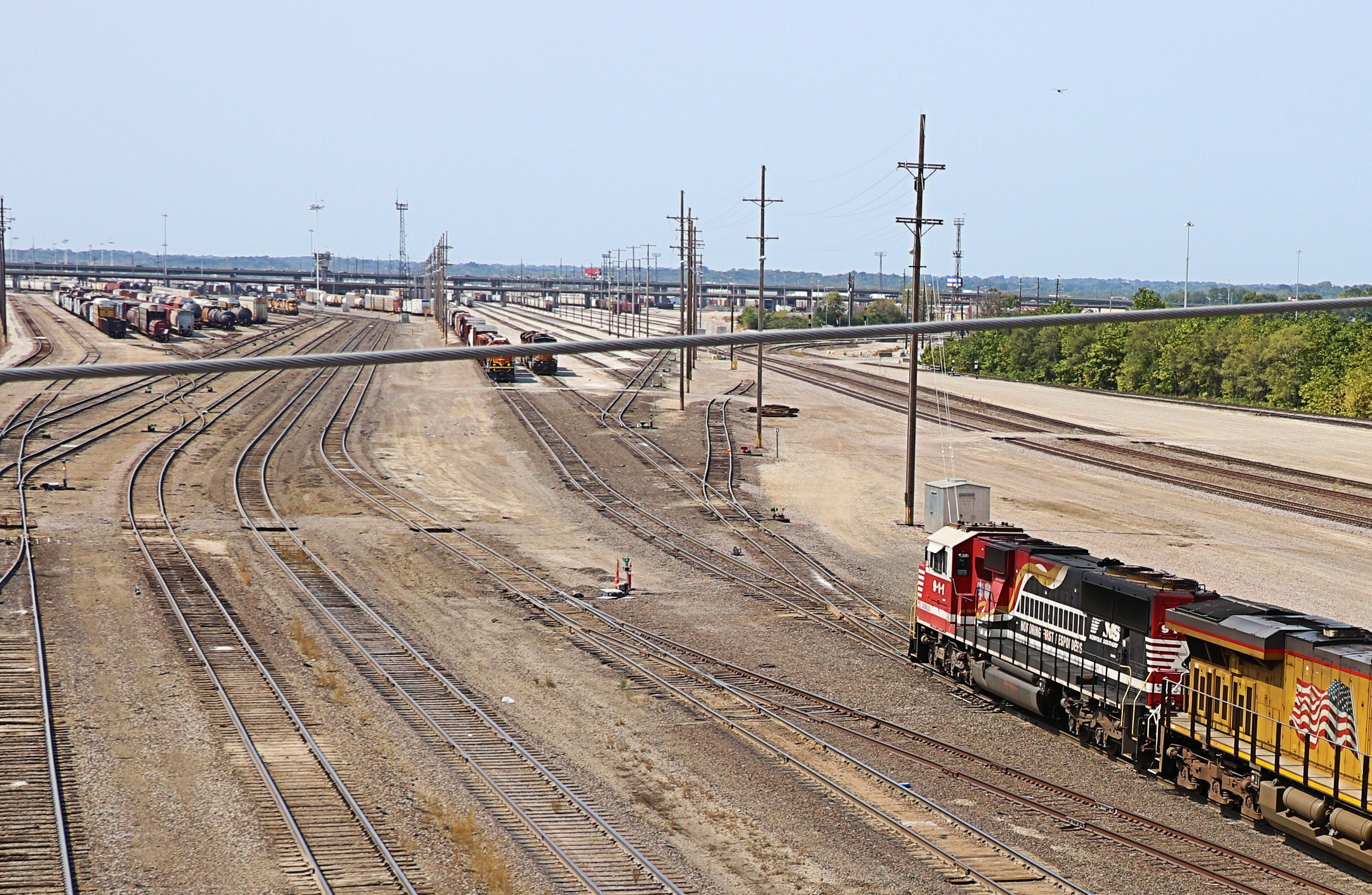 Norfolk Southern 911(SD60E) Honoring First Responders and Union Pacific 8071(ES44AC-H) Leads a Westbound Manifest working it's way into the BNSF Argentine Yard here on the east side of the yard seen from the Goddard Viaduct North of Strong Avenue in Kansas City, Kansas.